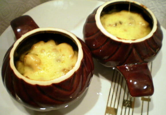 Julienne, a zakuski dish of Russian cuisine. Мushrooms in cream or béchamel sauce topped with grated cheese and baked in a cocotte. Chicken, fish or seafood can also be used with or instead of mushrooms.